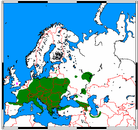 Edible dormouse (Glis glis), range map, depending on the range map at IUCN red list green=nativ, purple=introduced